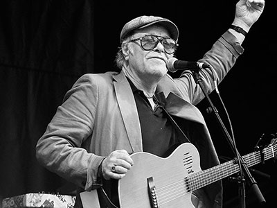 Kim Larsen